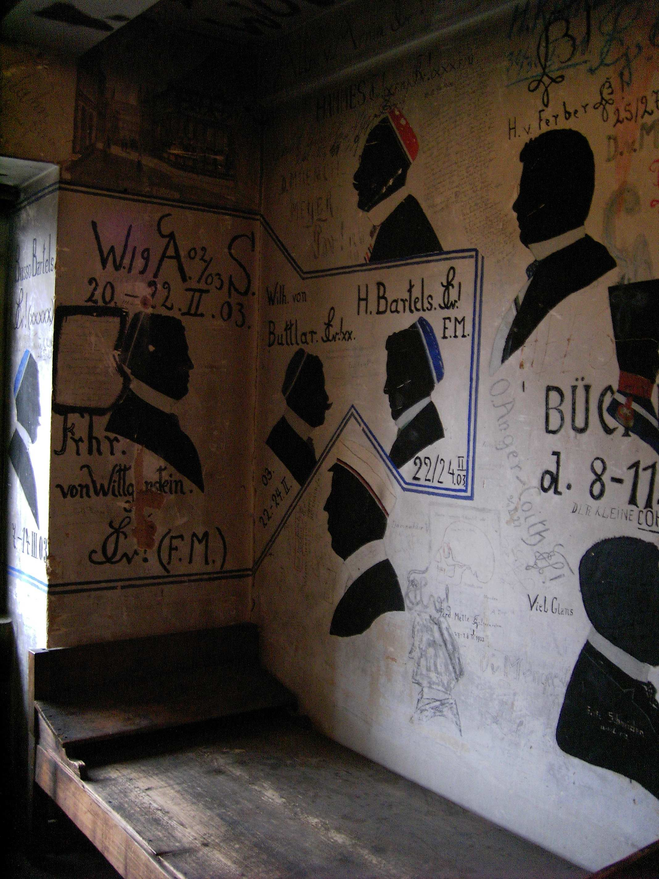 Description: Göttingen, University Karzer (former arrest cell for students), in the Aula at Wilhelmsplatz Author: Thangmar, photo taken myself, 06.08.2005 Licence